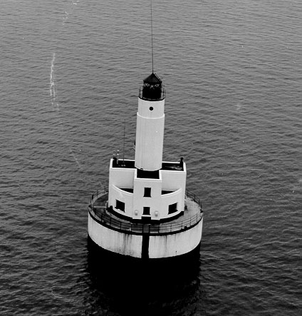 Cleveland Ledge Lighthouse Massachusetts, USA